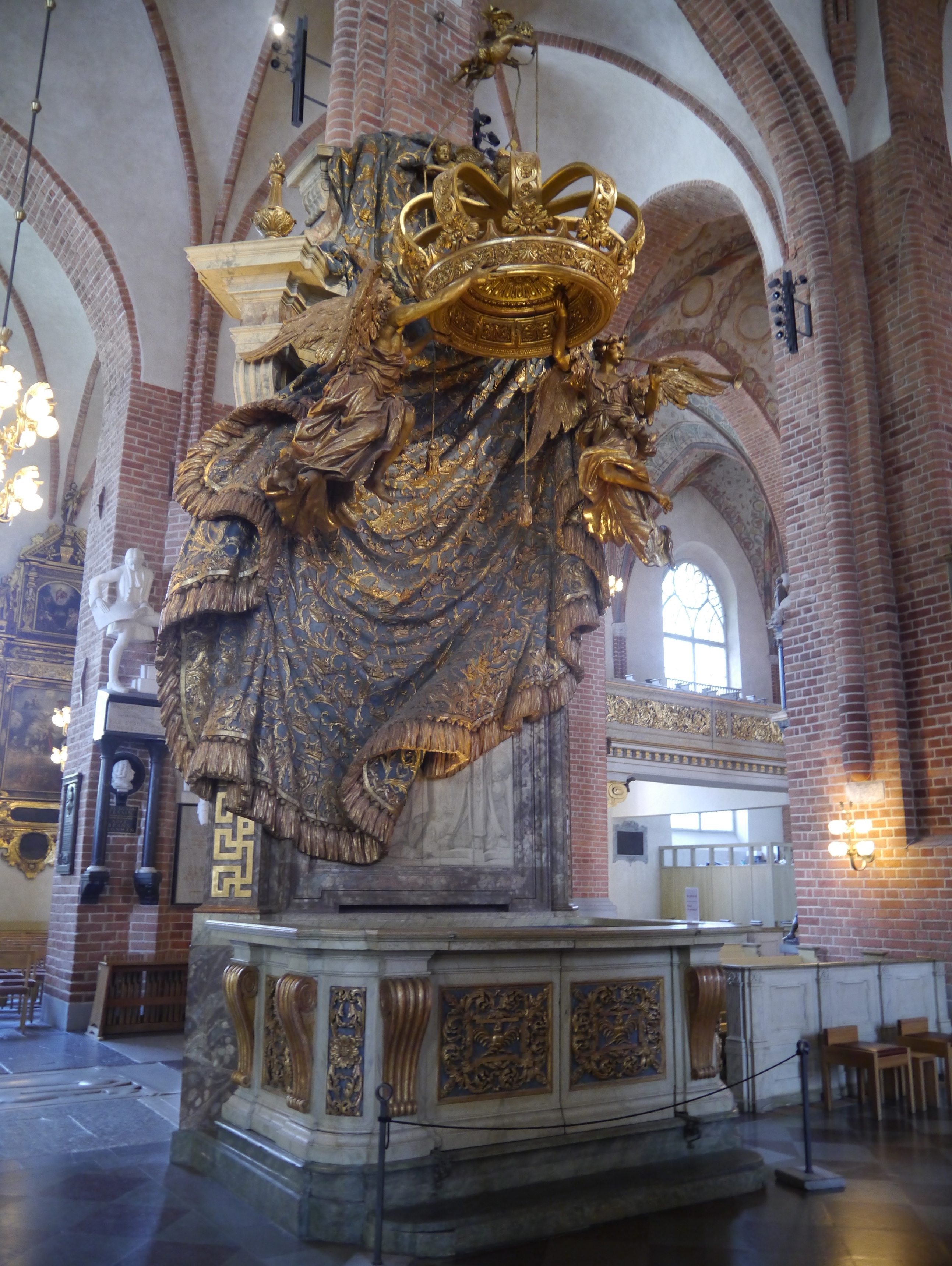 King's loge of the Cathedral, Stockholm, Stockholm Province, Southeastern Sweden